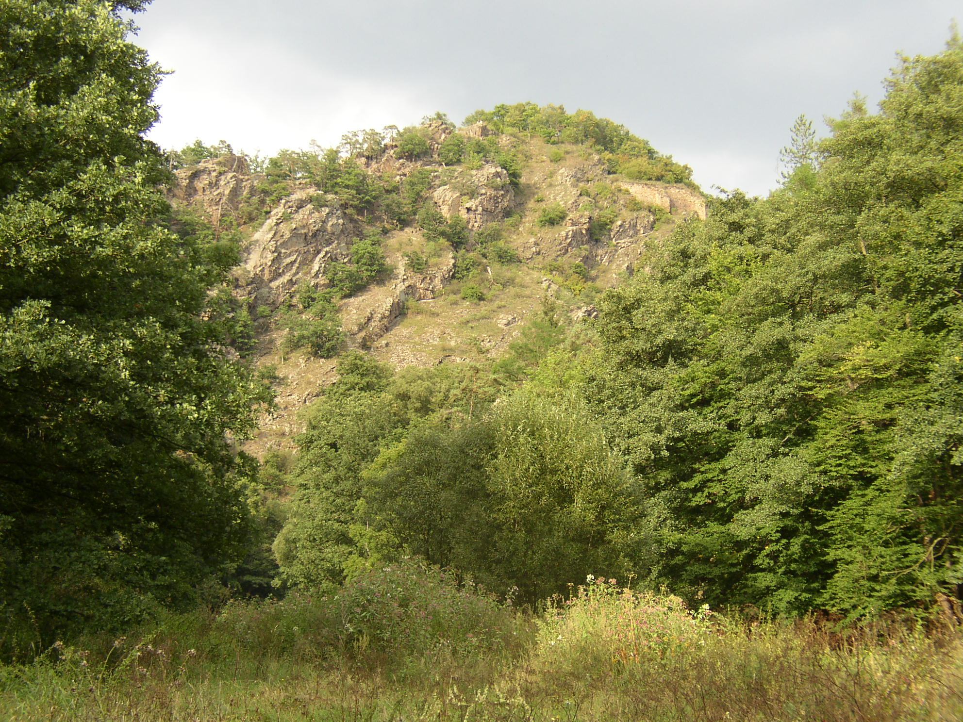 Ketkovice, Brno-Country District, Czechia. Levnov castle.